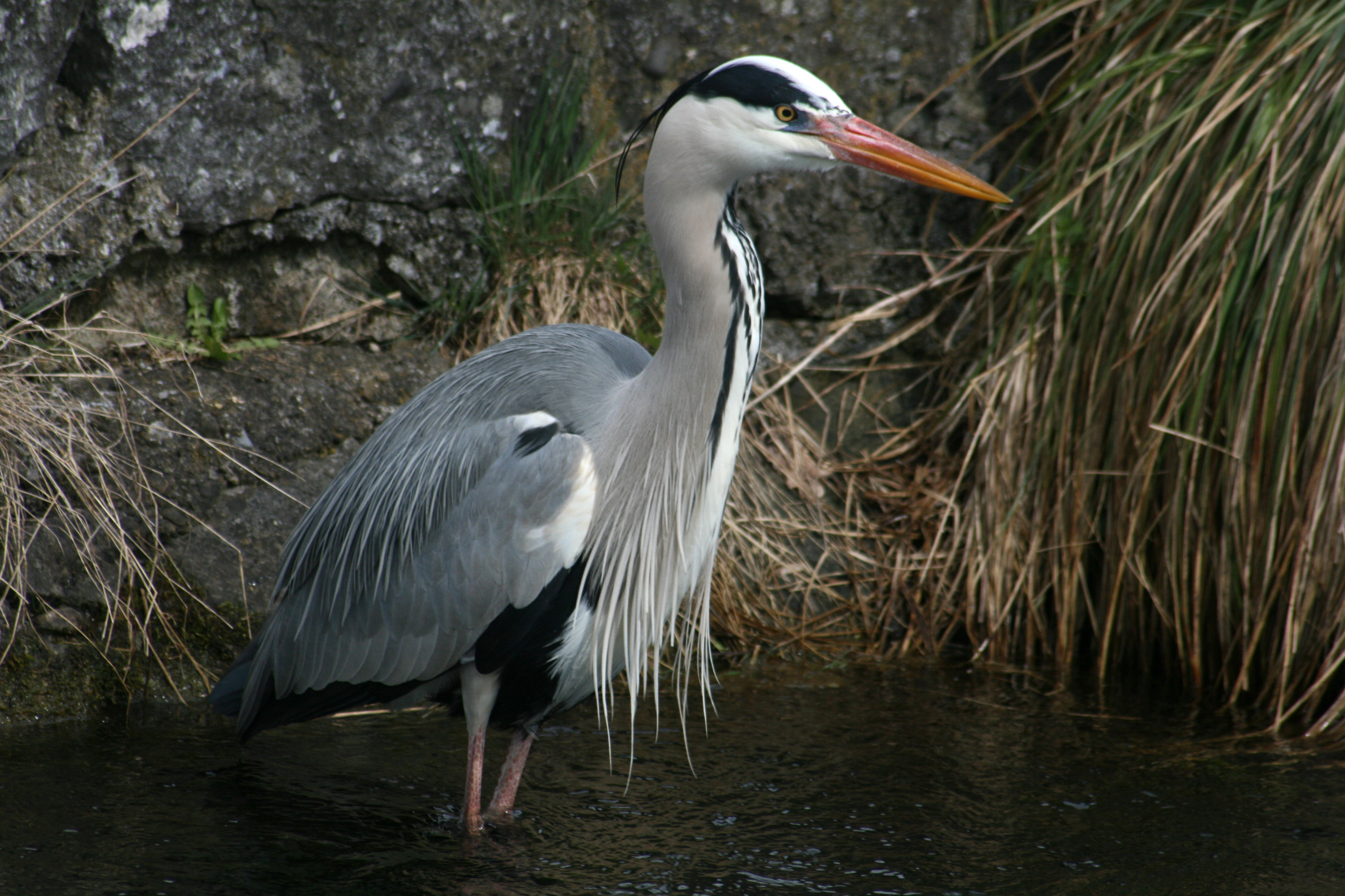 Grey Heron (Ardea cinerea) in Isny im Allgäu, Germany.